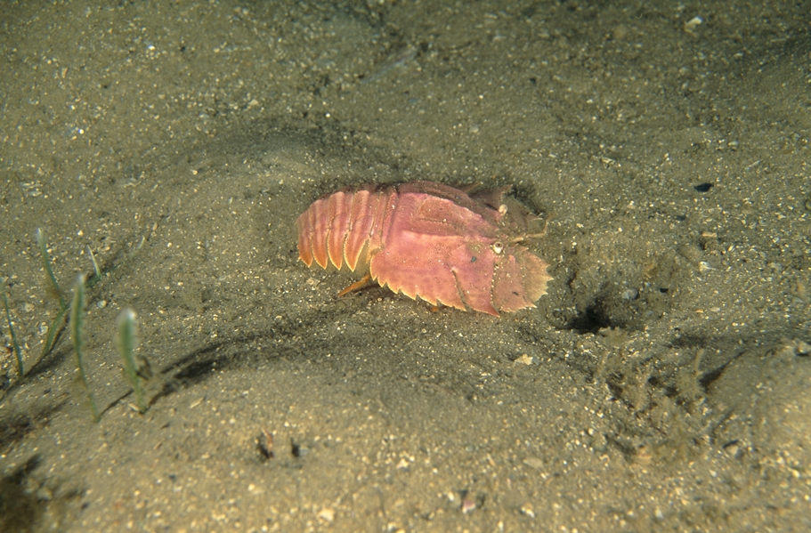 A Balmain Bug, Ibacus peronii, on sand